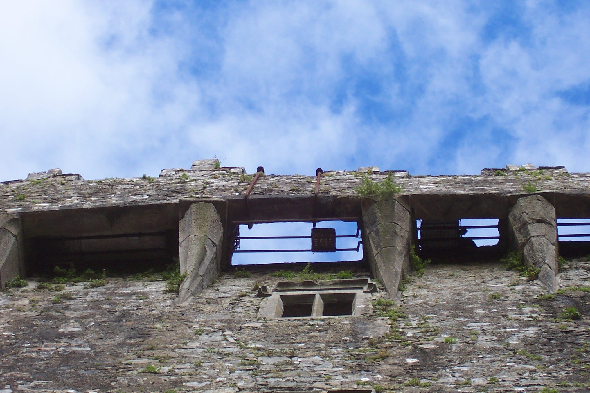 Blarney Stone, County Cork, Ireland